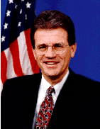 Former Congressman Tom Coburn of Oklahoma